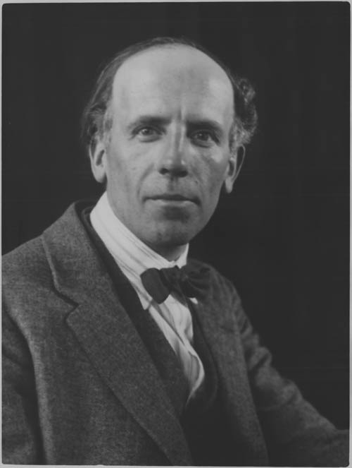 Title: Arthur Lismer, A.R.C.A. Source: Archives of Ontario Date: 1930 Creator: M.O. Hammond